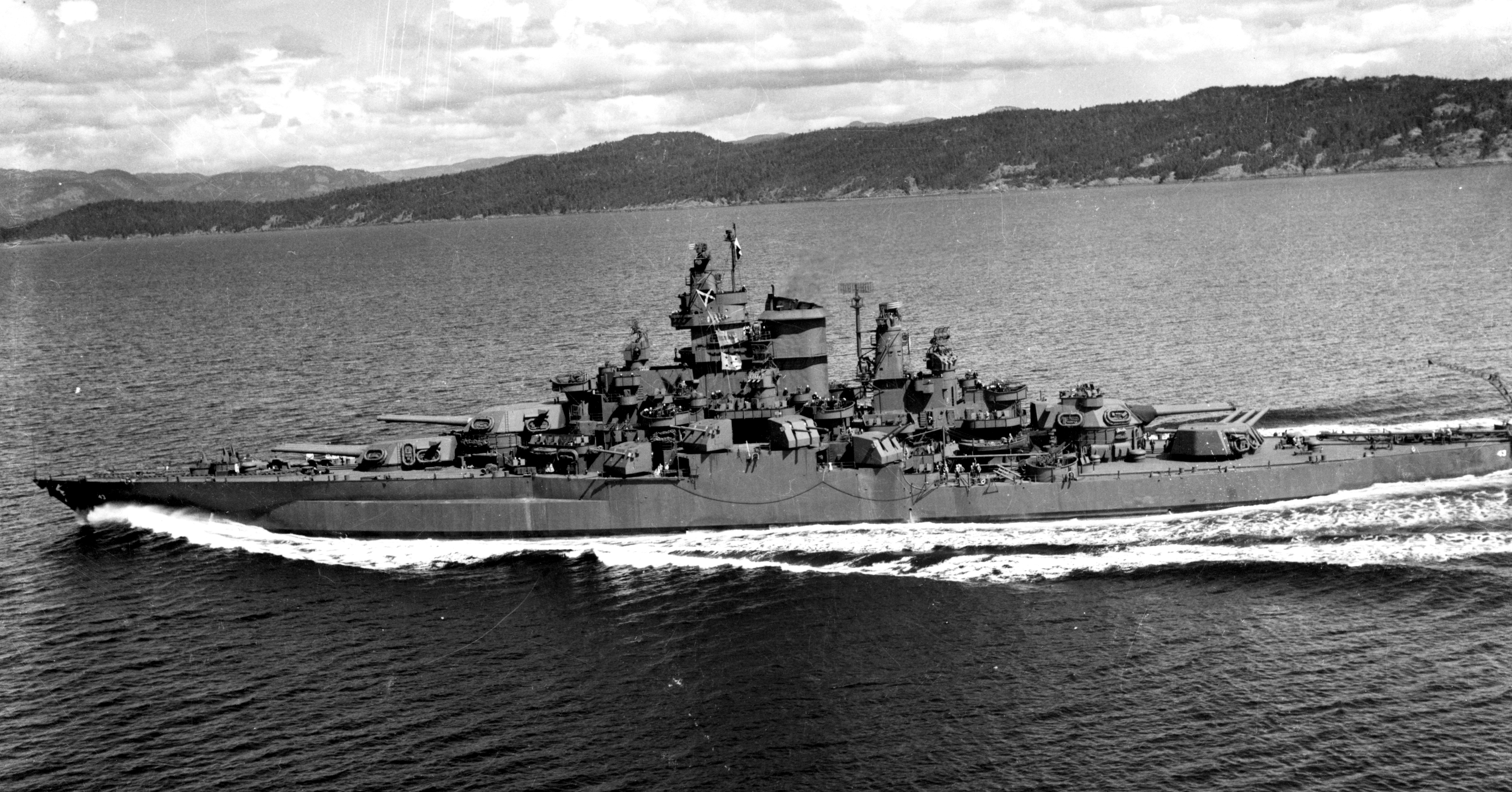 The U.S. Navy battleship USS Tennessee (BB-43) underway in Puget Sound, Washington (USA), on 12 May 1943, after modernization.